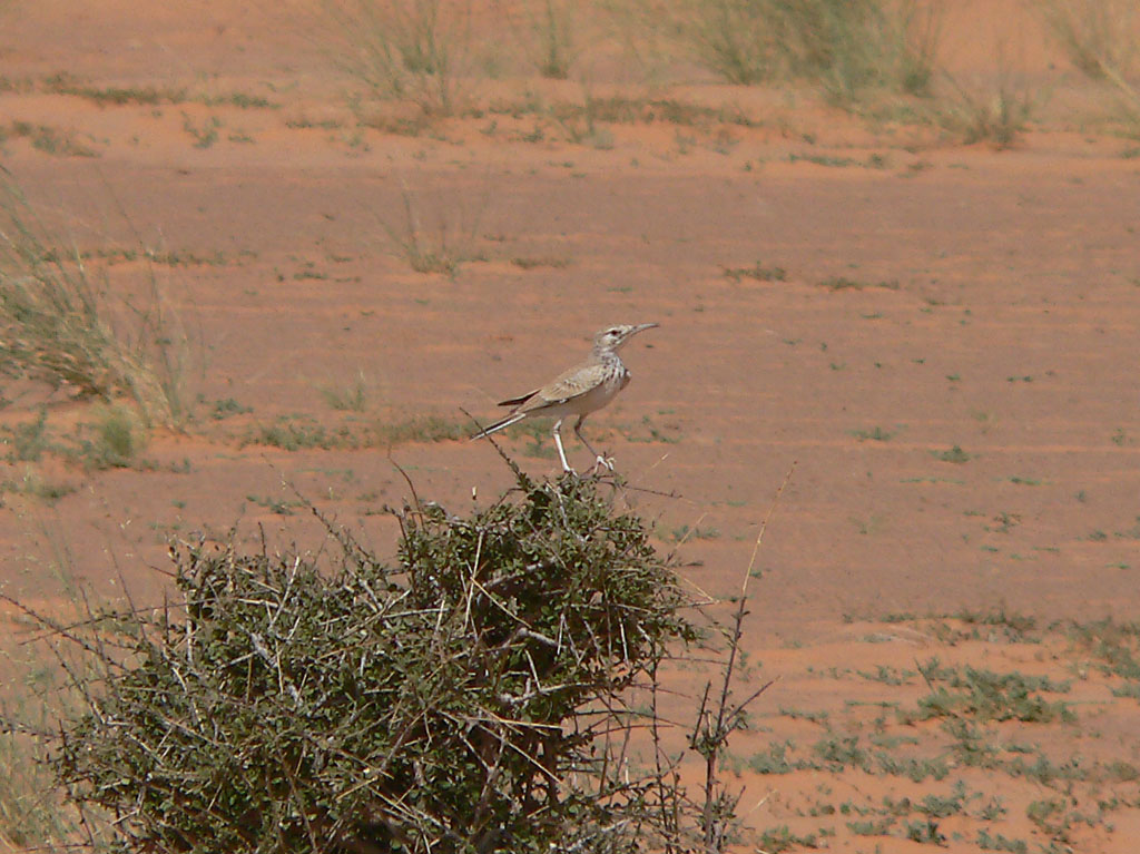 Greater hoopoe lark, Alaemon alaudipes, photographed near Benichab, Mauritania.